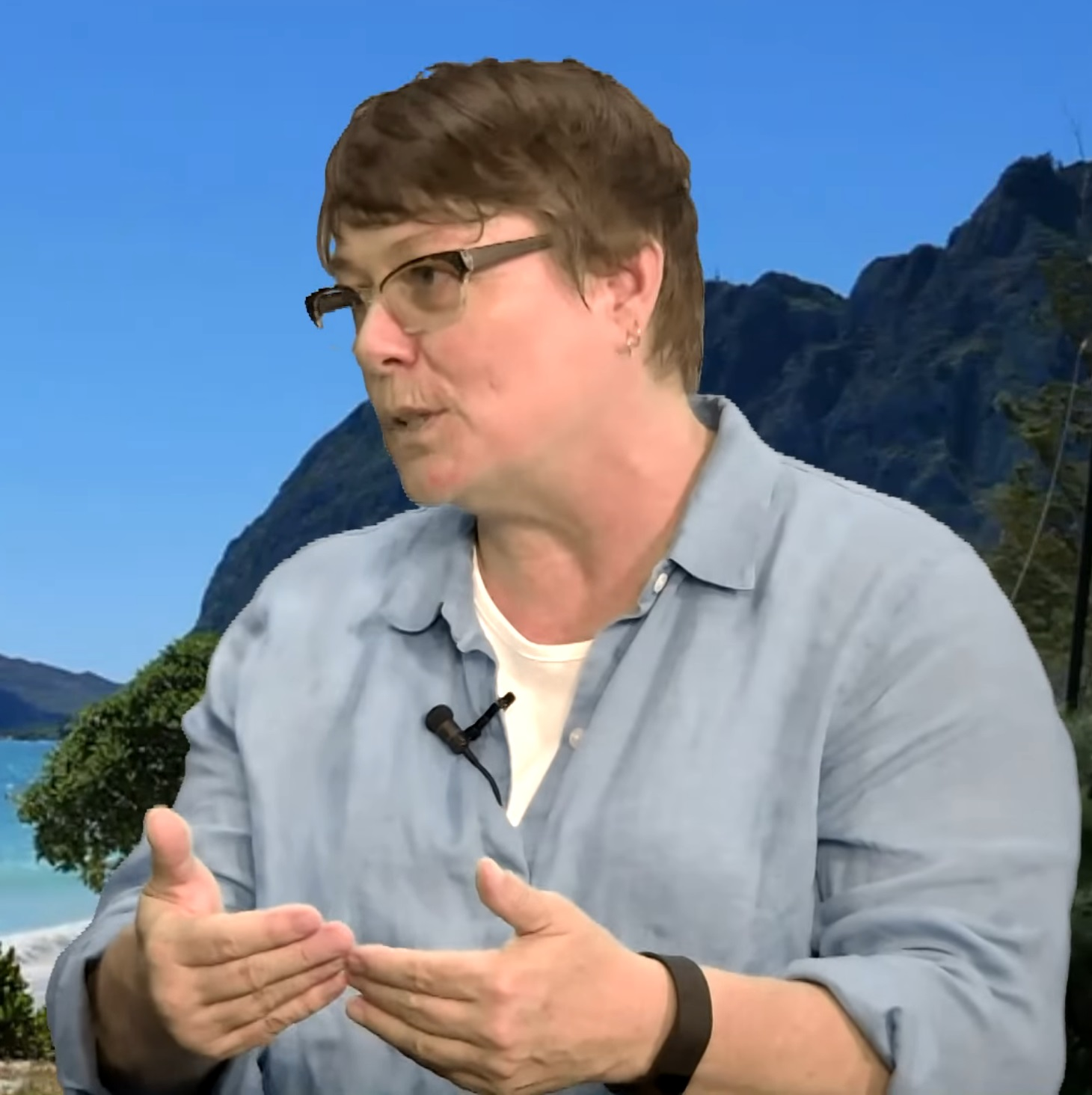 Turning Coral Reef Science into Action What will it take to save our coral reefs? How are we going to turn cutting edge science into policy? Who needs to be involved ? And how will we do it? Dr. Ruth Gates discusses progress from the 13th International Coral Reef Symposium held in Honolulu in June and expectations for the World Conservation Congress starting on September 1st. ThinkTech Hawaii streams live on the Internet from 11:00 am to 5:00 pm every weekday afternoon, Hawaii Time, then streaming earlier shows through the night.